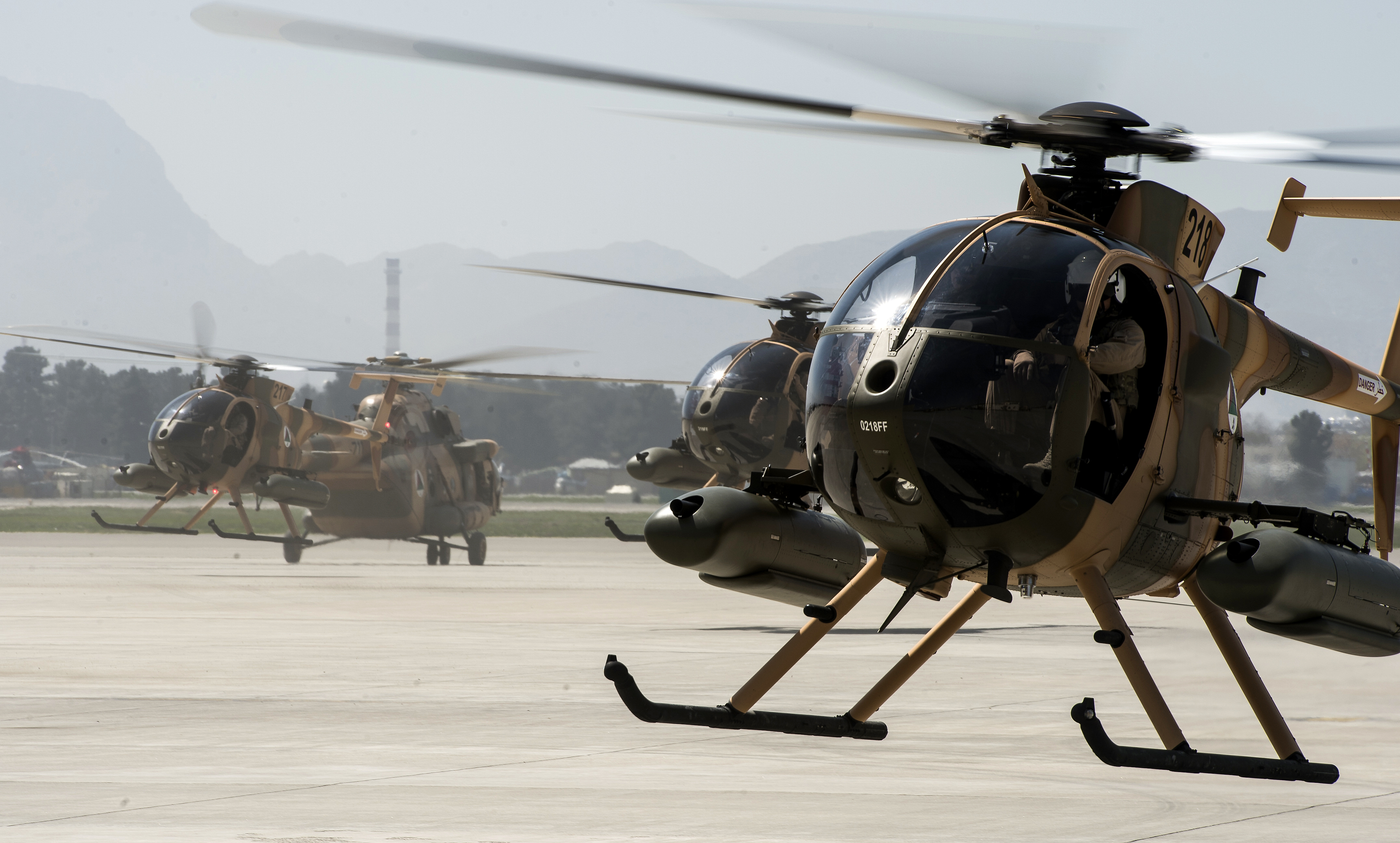 Afghan air force MD-530F Cayuse Warrior helicopter pilots, and their advisers from the Train, Advise, Assist Command - Air, land in formation during rehearsal of the official "Roll-Out" ceremony for the MD-530F, April 8, 2015, at the Kabul, Afghanistan, International Airport. The new aircraft will be armed with two FN M3P .50-caliber machine guns. This will increase the Afghans' close air support capability by six times. (U.S. Air Force Photo by Staff Sgt. Perry Aston/Released)